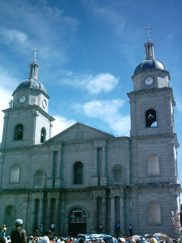 Der Tempel von Tuxpan / Jalisco. El templo de Tuxpan / Jalisco. The church of Tuxpan /Jalisco.